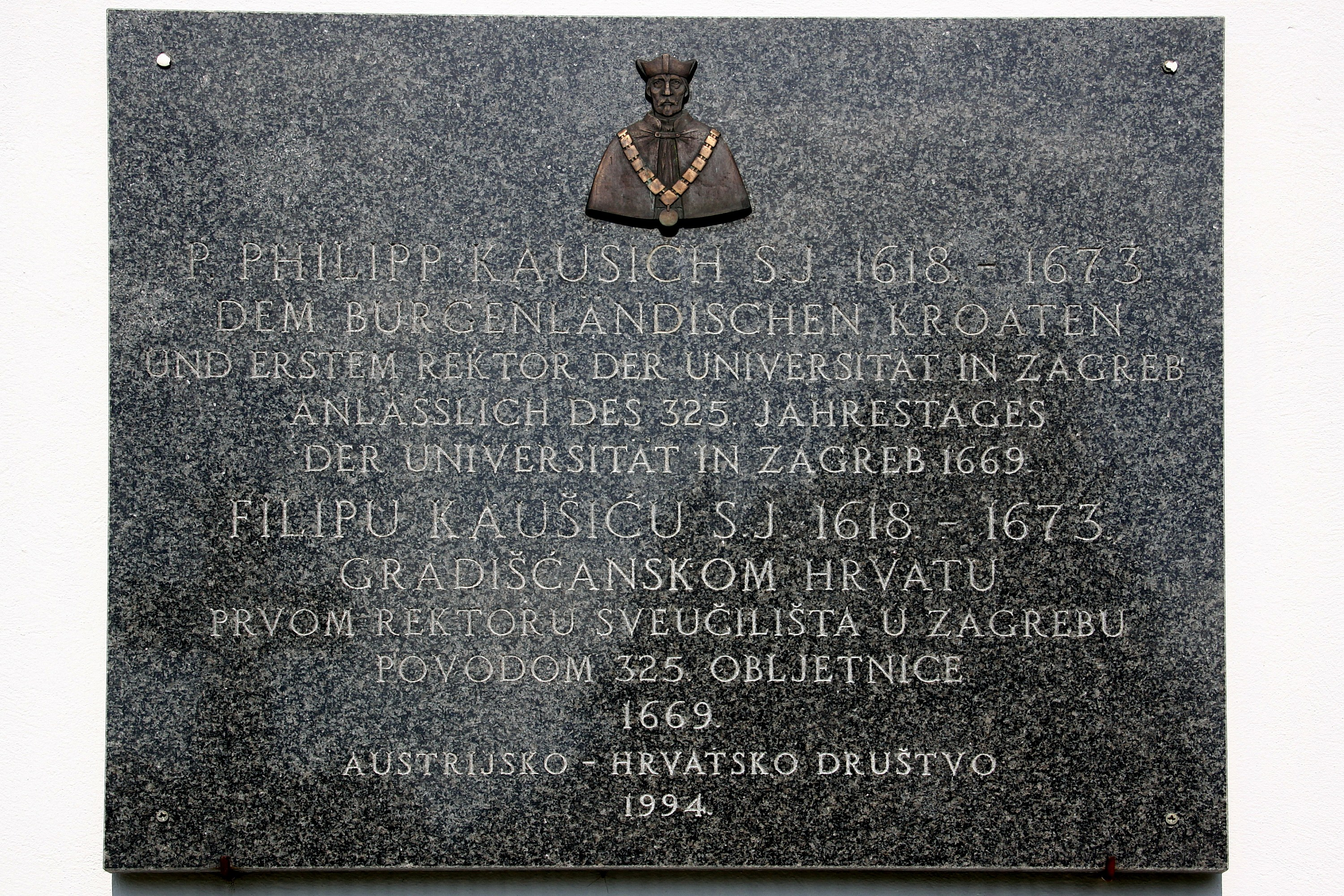 Parish church Saints Peter and Paul - Zillingtal Object location47° 48′ 47.3″ N, 16° 24′ 23.17″ E